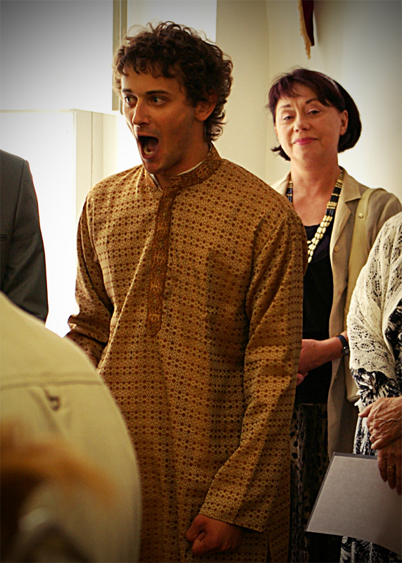 Estonian actor Robert Annus.